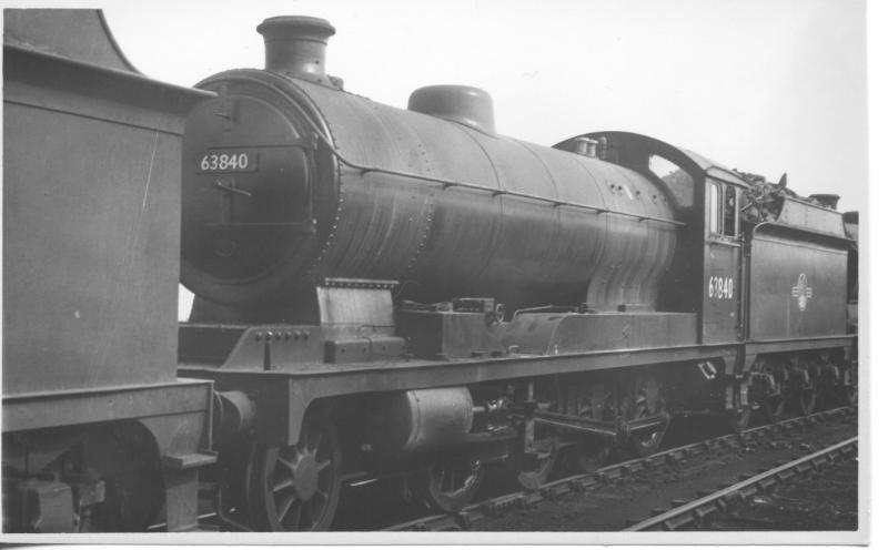 ROD 2-8-0 locomotive 63840 at Langwith Junction engine shed on 7 August 1960. This loco was built by the North British Locomotive Company in January 1919.